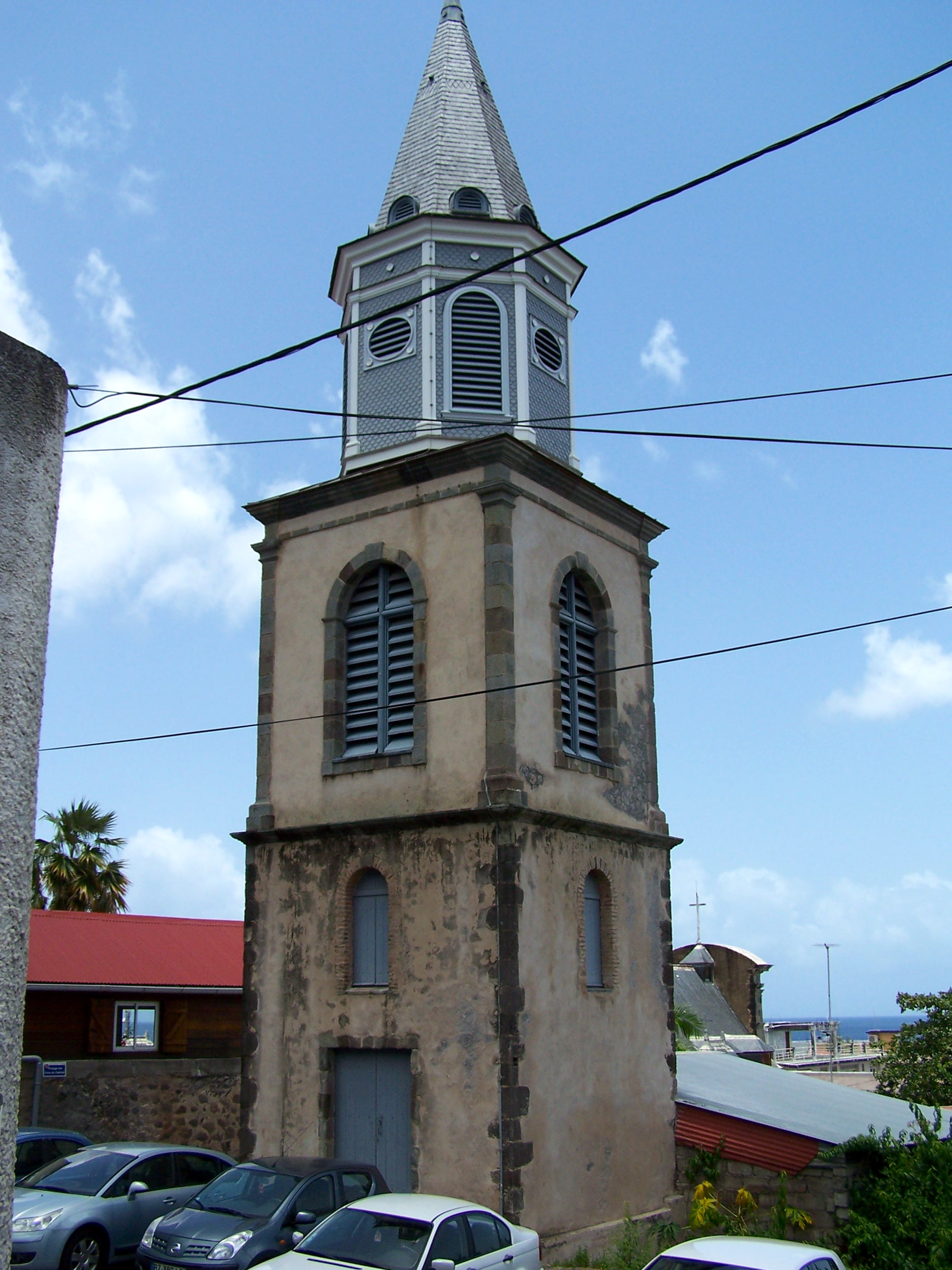 Le clocher de la cathédrale Notre-Dames de Guadeloupe à Basse-Terre